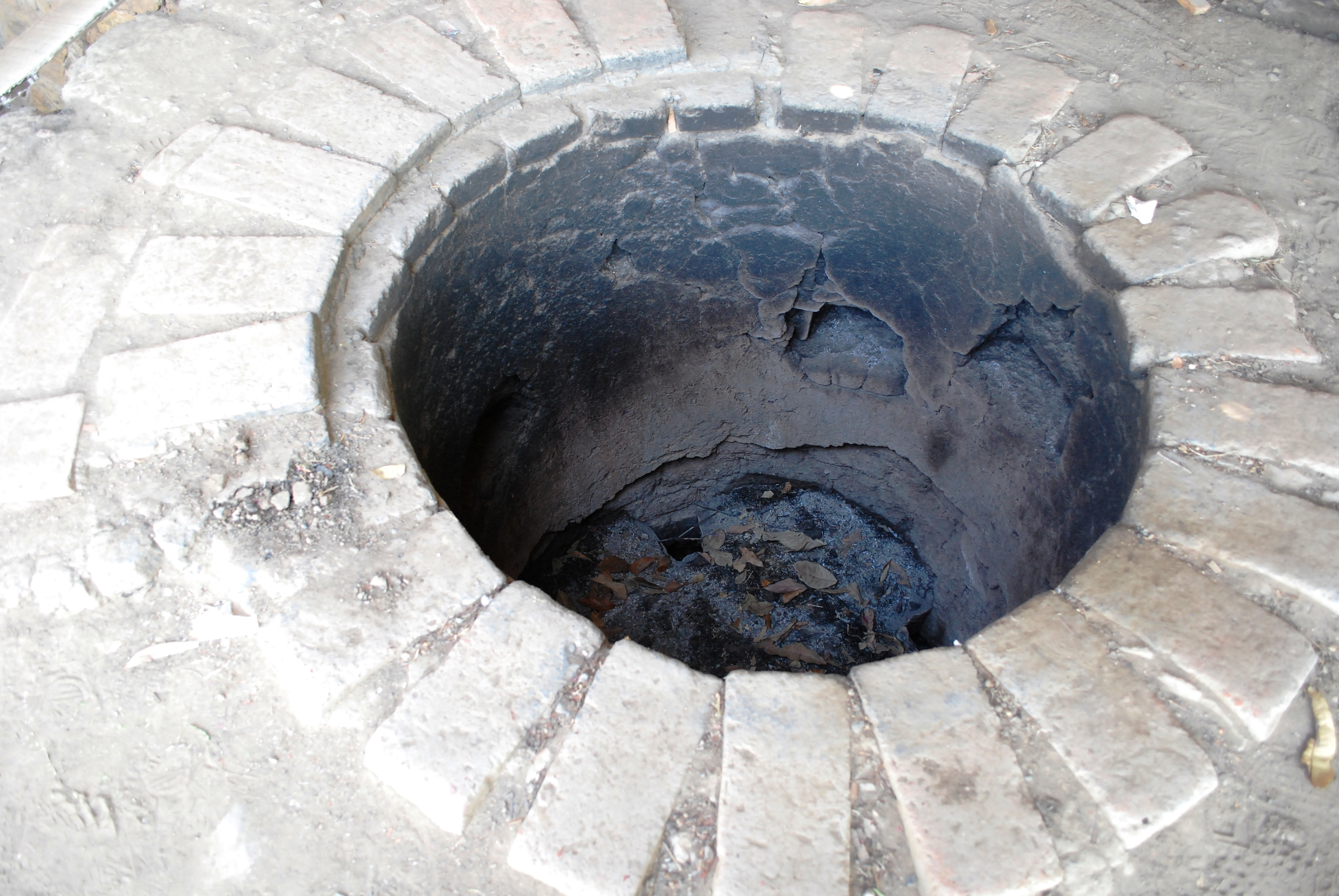 View of the firing oven at the Doña Rosa Workshop in San Bartolo Coyotepec, Oaxaca, Mexico